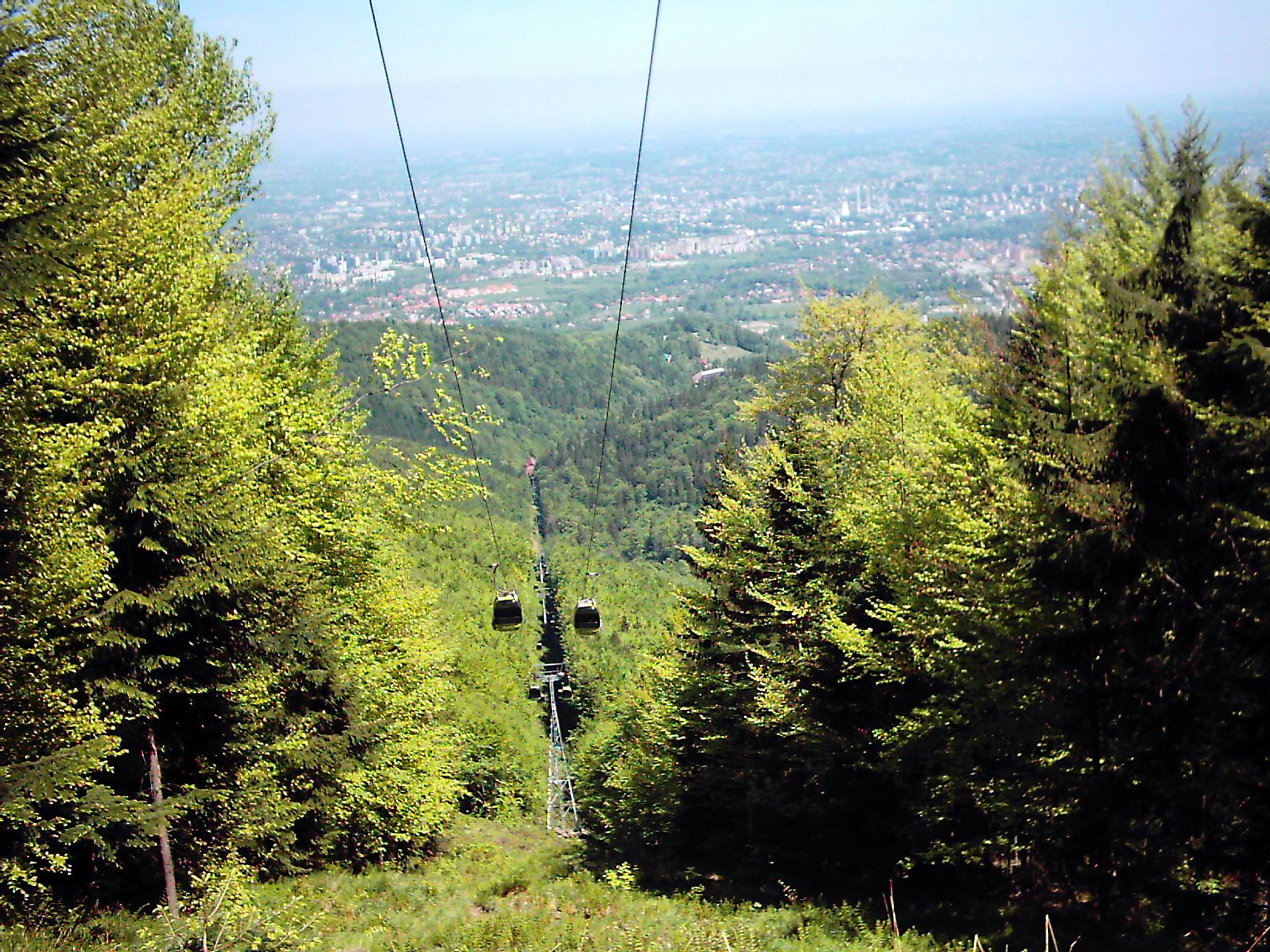 View from Szyndzielnia. We can see cable car. City in background is Bielsko-Biala.